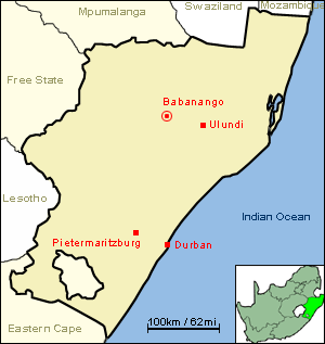 location map of Babanango